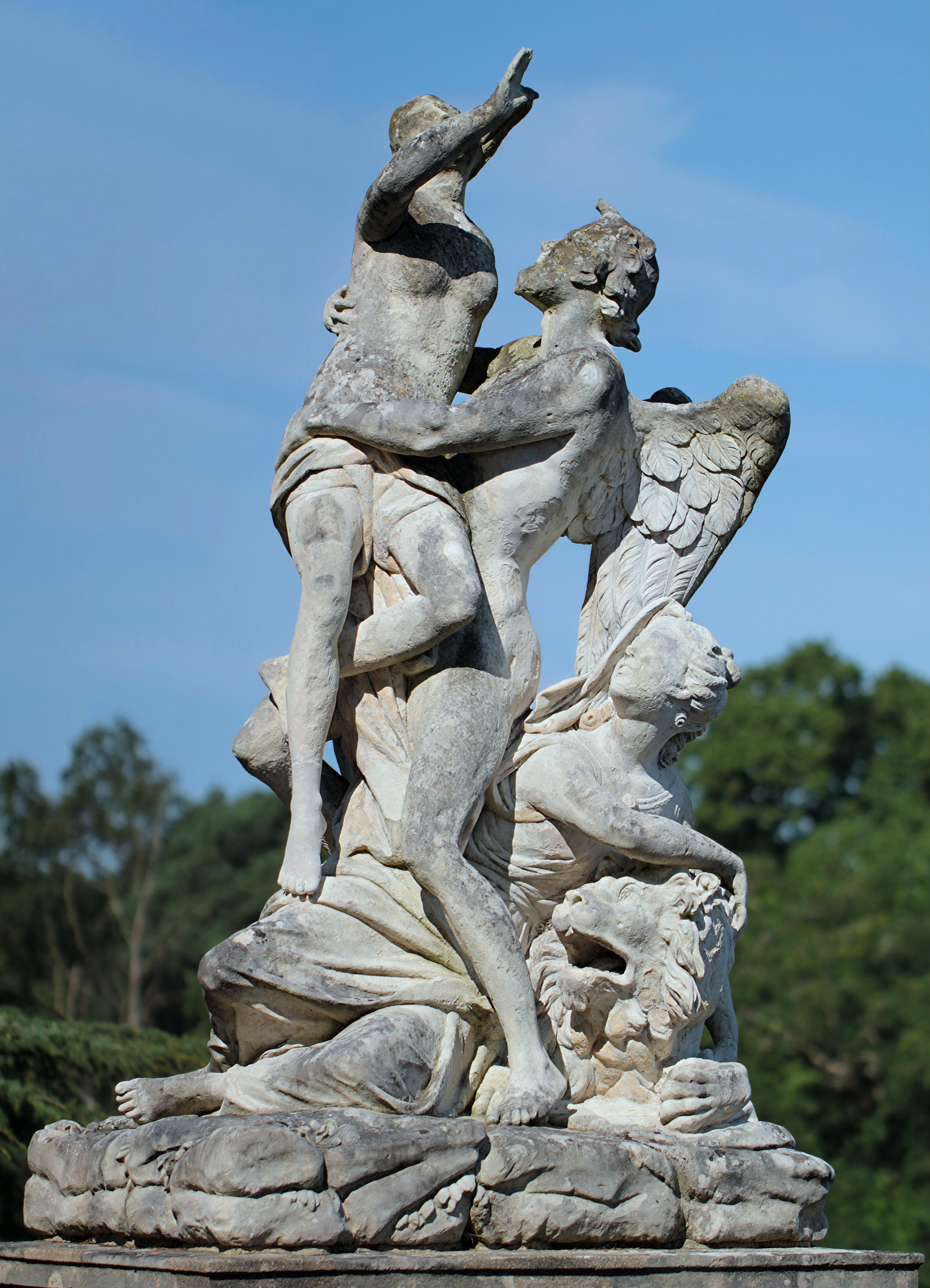 Early 18th century statue depicting 'Time and Opportunity', or 'Peace Embracing Time', on the north west end of the terrace at Trent Park House, Trent Park, Enfield. The statue was brought in the mid 1920s to Trent Park from Stowe, Bucks or Milton Abbey, Dorset, by Sir Philip Sassoon. British Listed Buildings